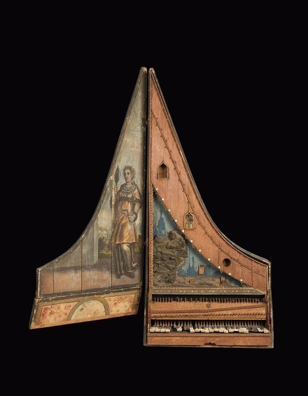 Front view of clavicytherium, ?South German, c. 1480, held in the collections of Royal College of Music. View showing case open.